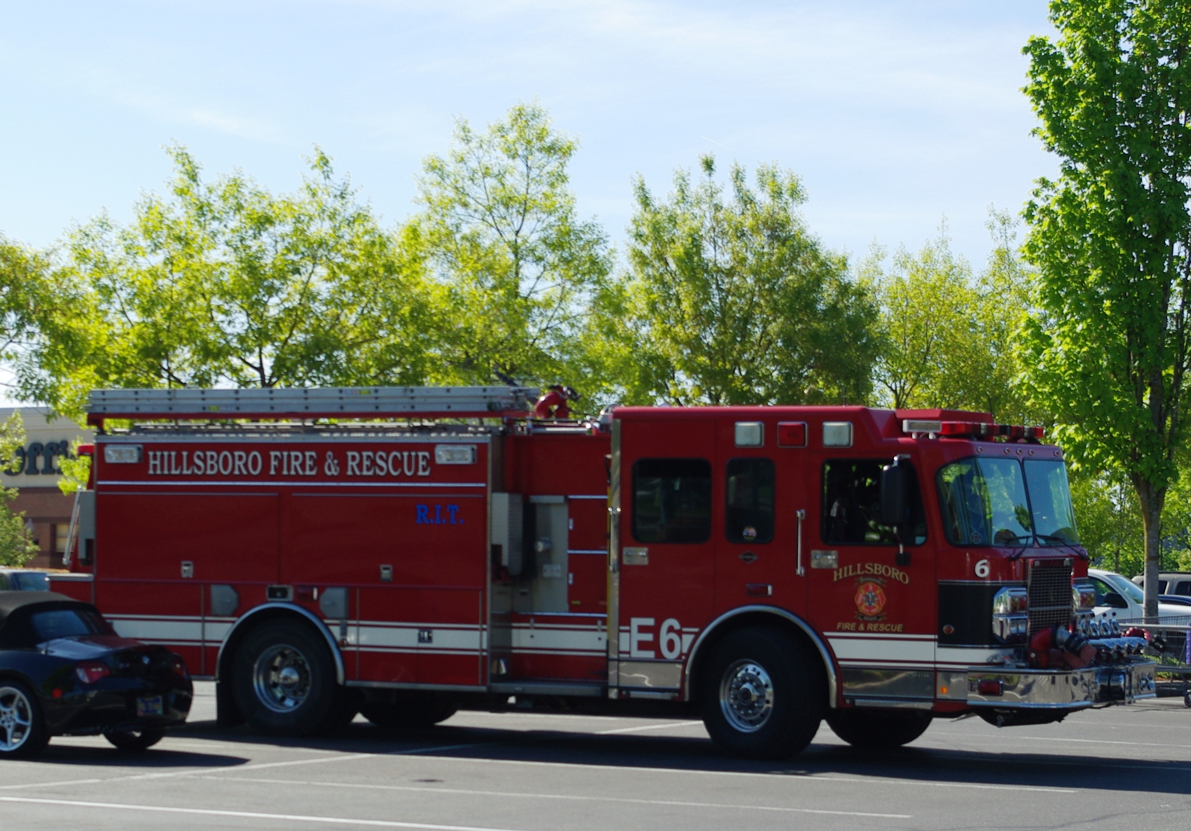 Fire engine in Hillsboro, Oregon.